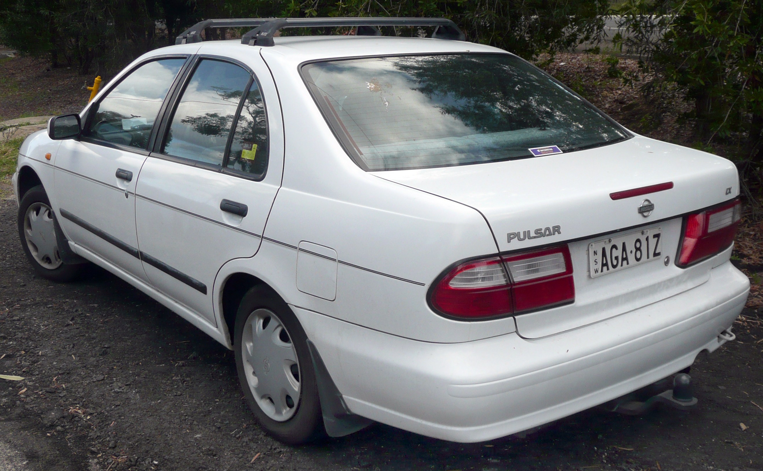 1998 Nissan Pulsar (N15 S2) LX sedan. Photographed in Loftus, New South Wales, Australia.